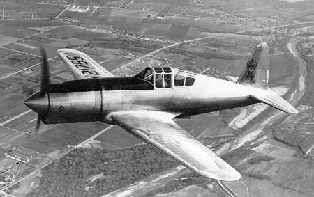 Vultee P-66 Vanguard, Model 48 in flight with original long nose cowling